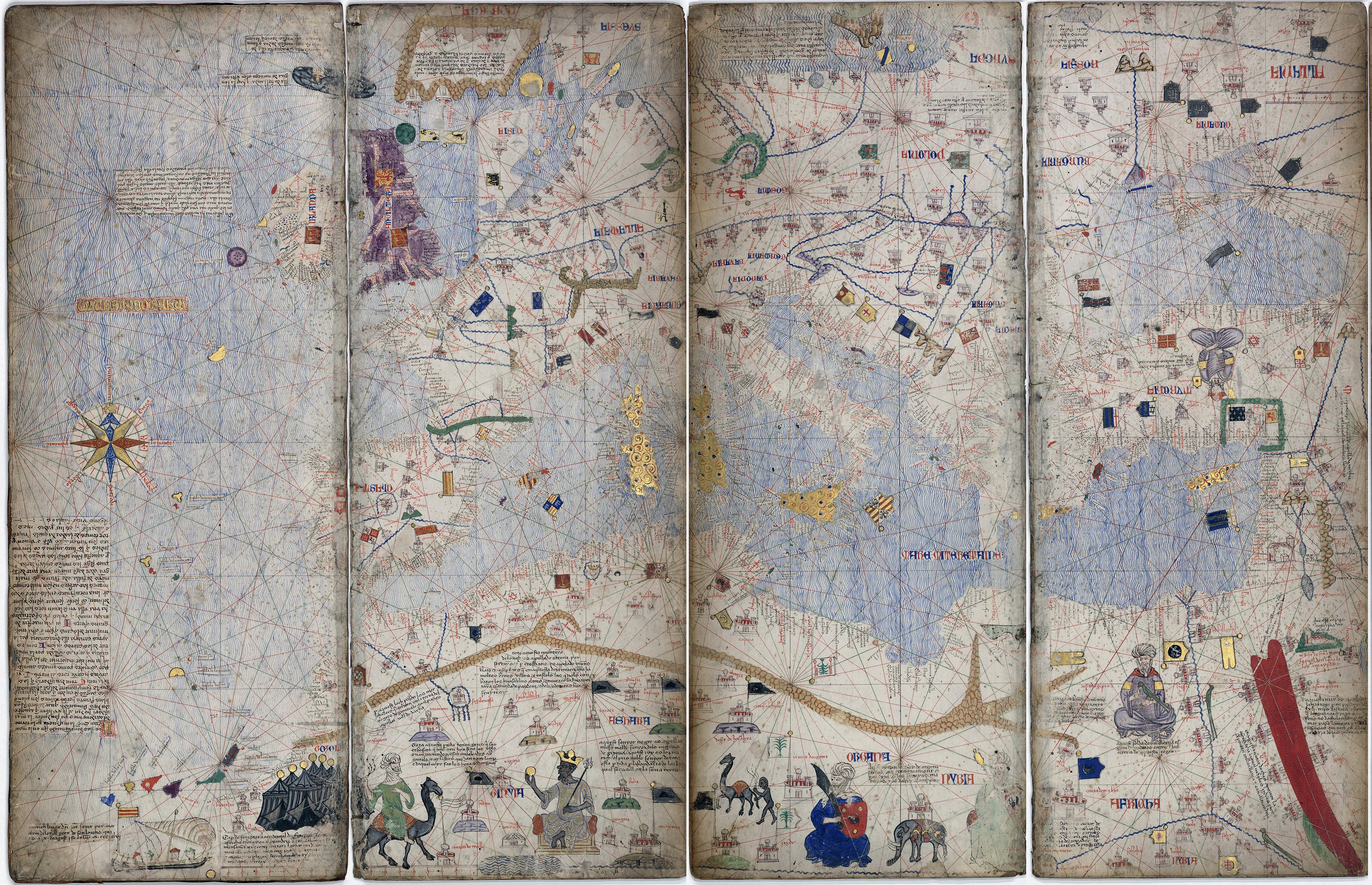 Map of Europe in Catalan Atlas, by Abraham Cresques. 1375